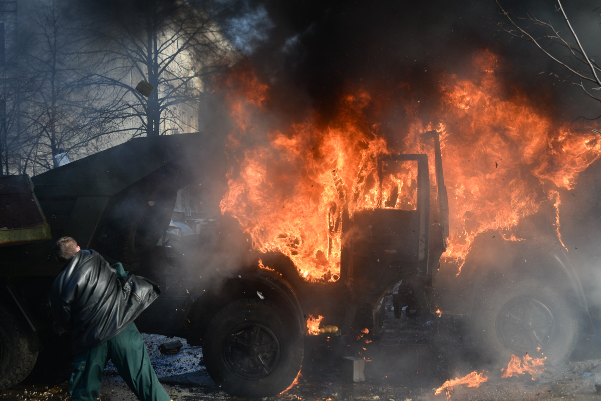 Clashes in Kyiv, Ukraine. Events of February 18, 2014